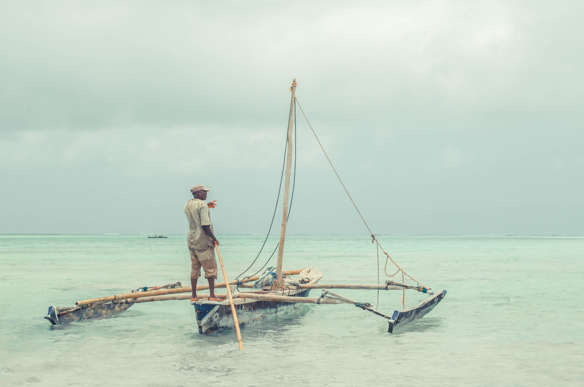 The exact origins of the dhow are lost to history. Most scholars believe that it originated in India between 600 BC to 600 AD.[citation needed] Some claim that the sambuk, a type of dhow, may be derived from the Portuguese caravel.Even to the present day, dhows make commercial journeys between the Persian Gulf and East Africa using sails as their only means of propulsion. Their cargo is mostly dates and fish to East Africa This is an image with the theme "Africa on the Move or Transport" from: Tanzania